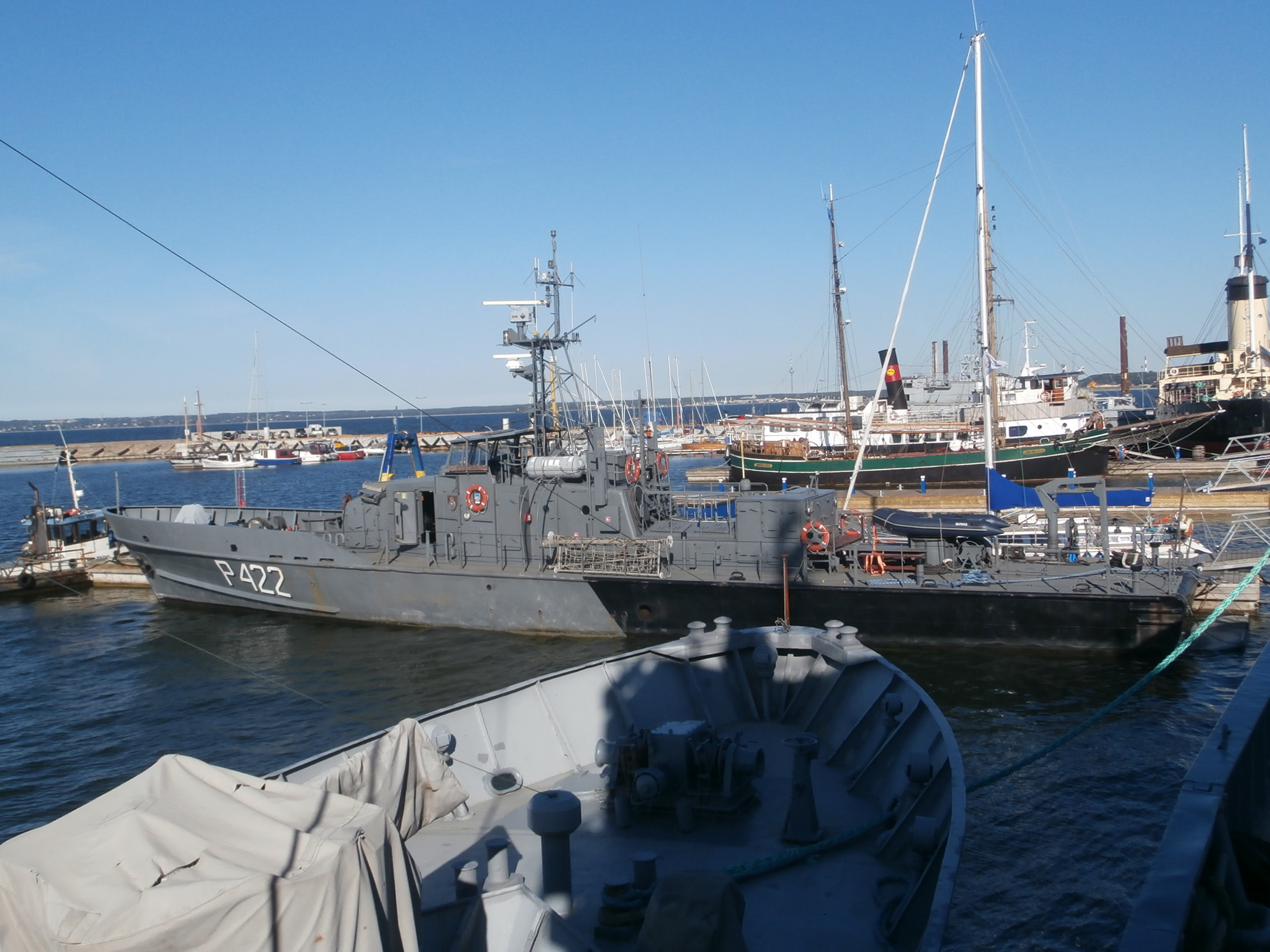 P422 Ristna at pier A1 in Lennusadam Tallinn 19 August 2015 (tugboat Päntu in front of her bow; bow of PVL-106 Maru in the foreground; sailing vessel Kajsamoor, Katharina and icebreaker Suur Tõll in the background)